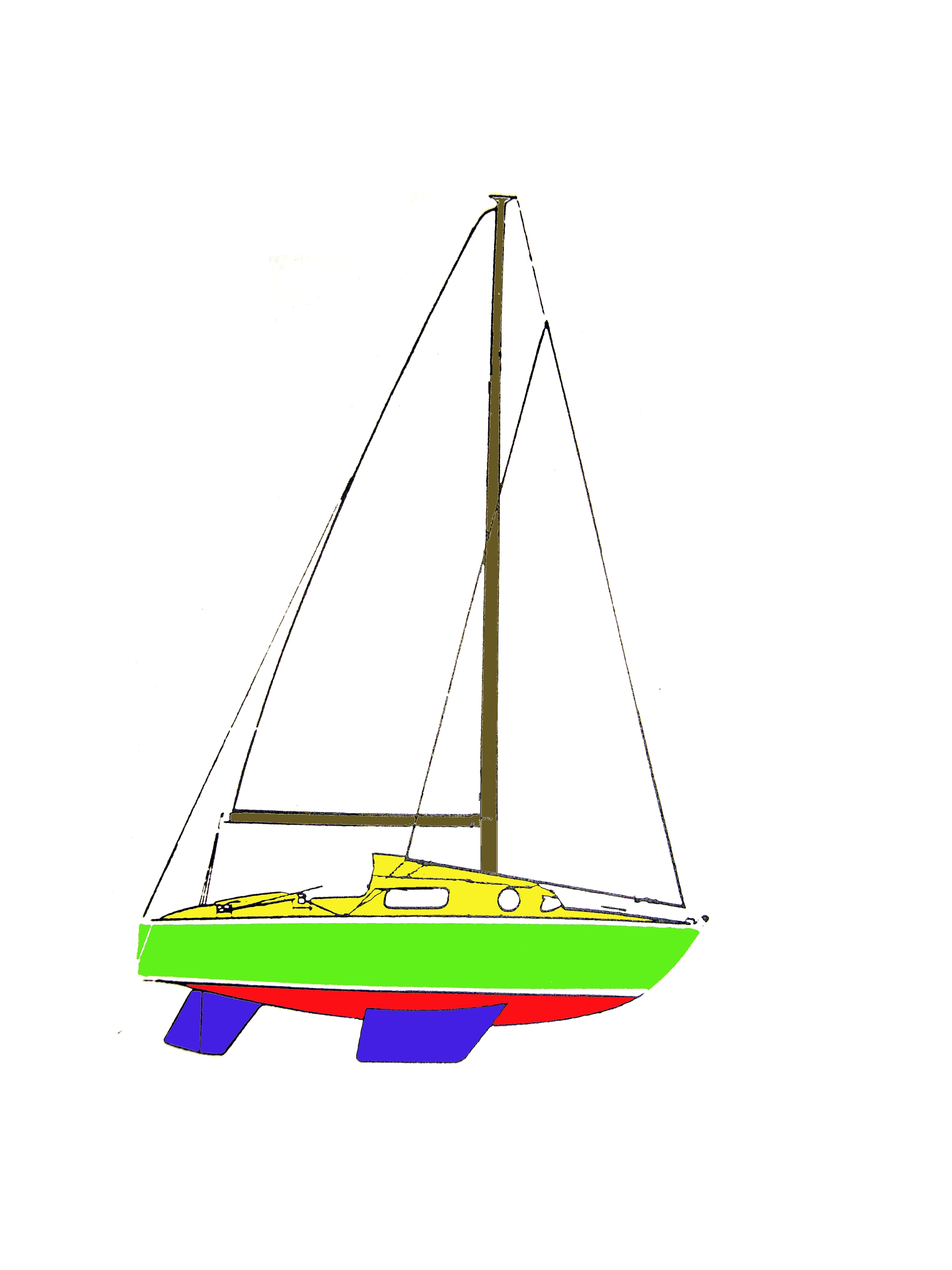 Leisure